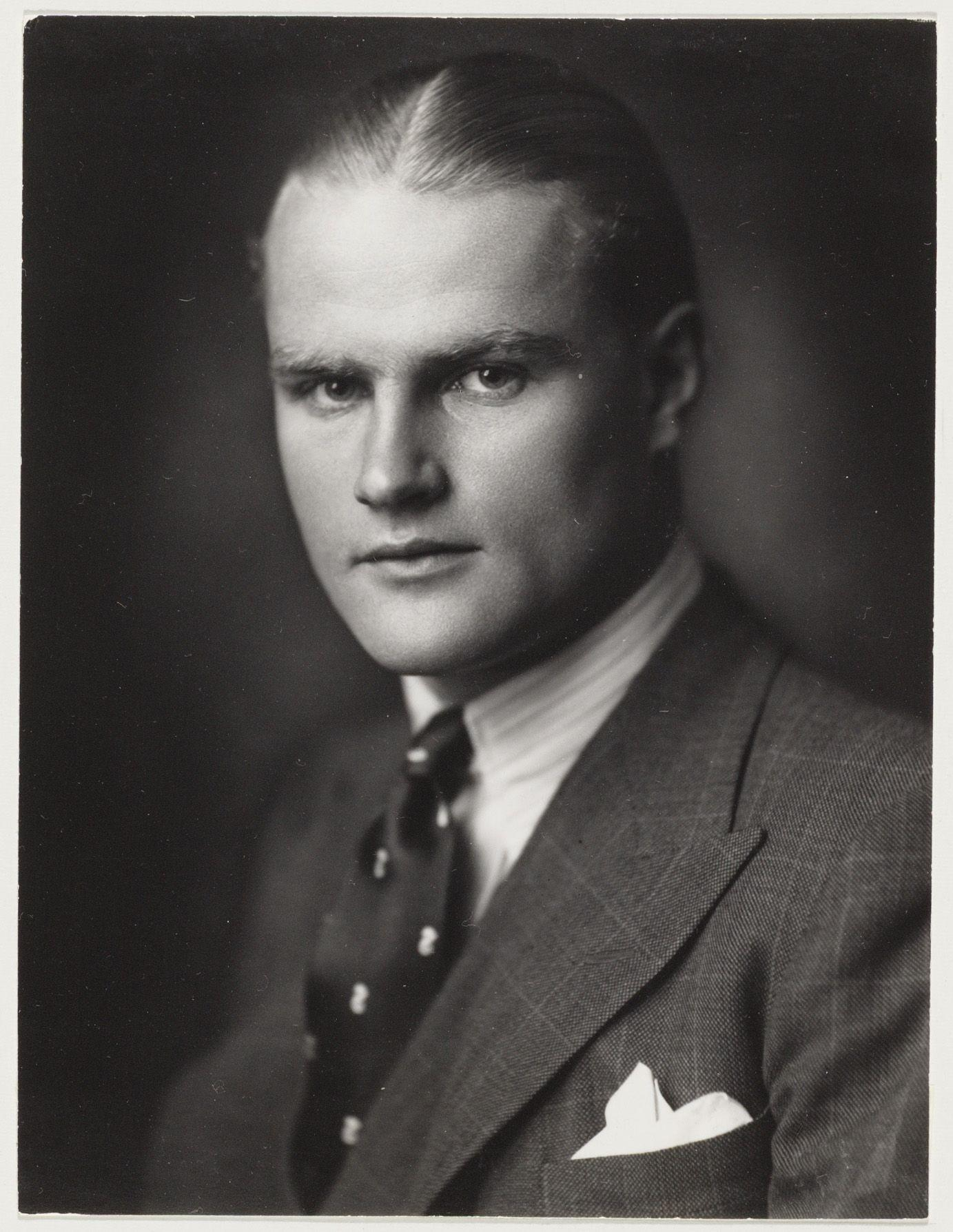 Photograph of Ernst Moltzer by Jacob Merkelbach (1877-1942)